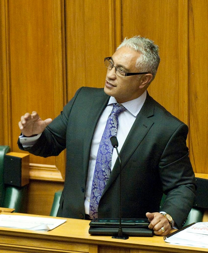 Pacific Parliamentary and Political Leaders Forum, 2013 : New Zealand Parliamentary Debate on Pacific Issues. Mr Alfred Ngaro, National Party.